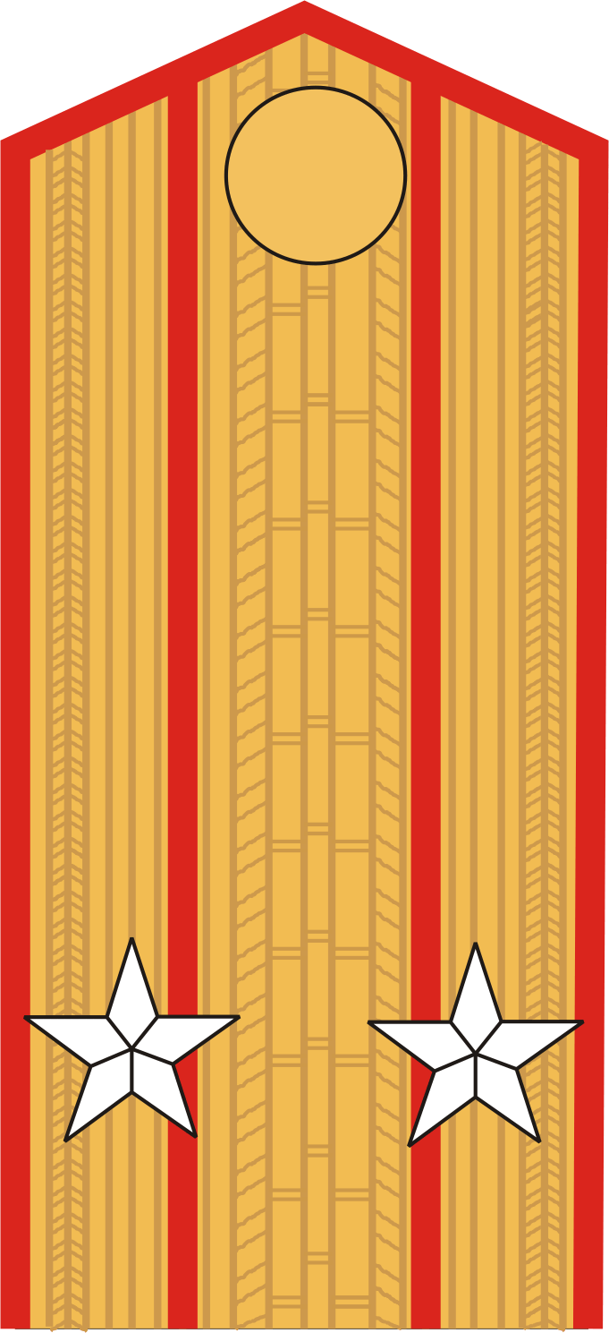 Russian rank insignia (1943-1945), here "Lieutenant colonel" (OF4) – shoulder strap Army (infantry, motorized infantry) field uniform, color khaki.